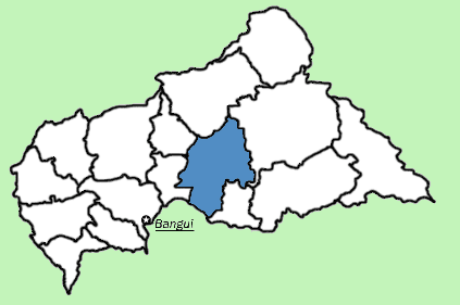 Map showing location of Ouaka_Prefecture in Central African Republic